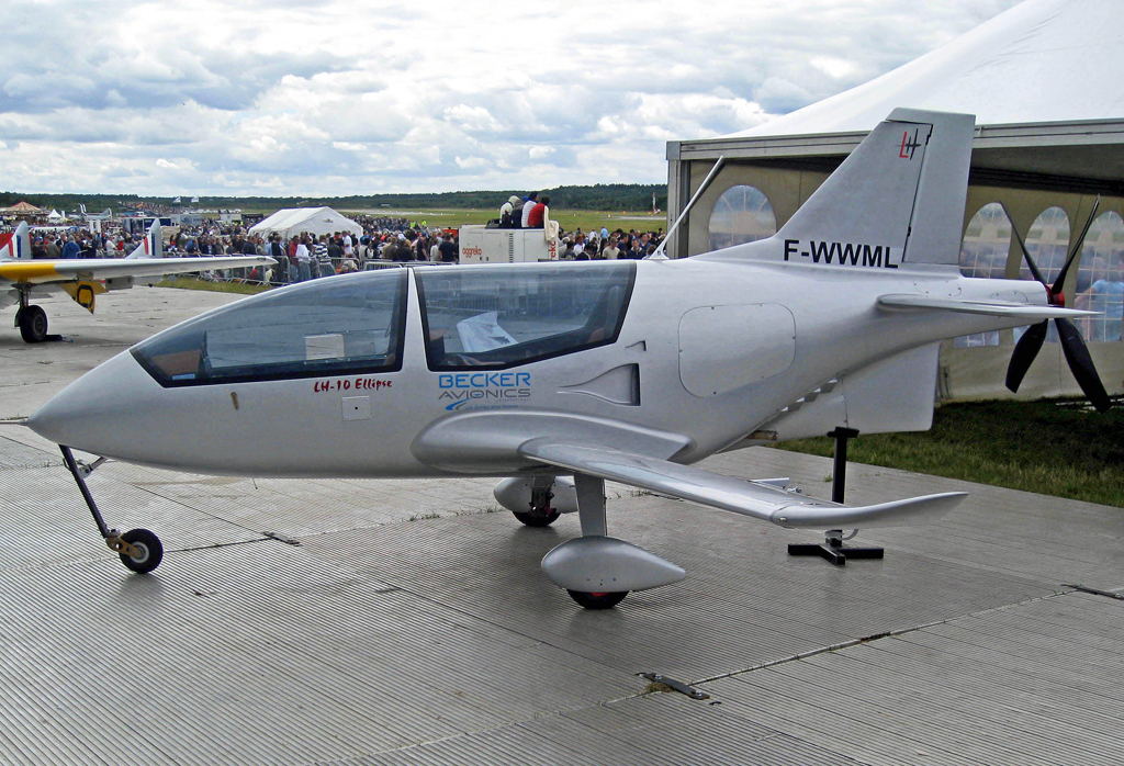 LH Aviation LH-10 Ellipse F-WWML at the 2008 Farnborough Air Show